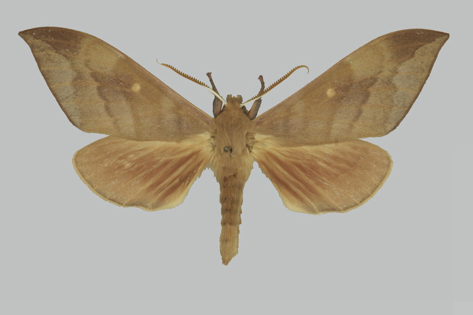 Rhodambulyx davidi, male, upperside. China, Guizhou, Shitoushan, Rongjiang